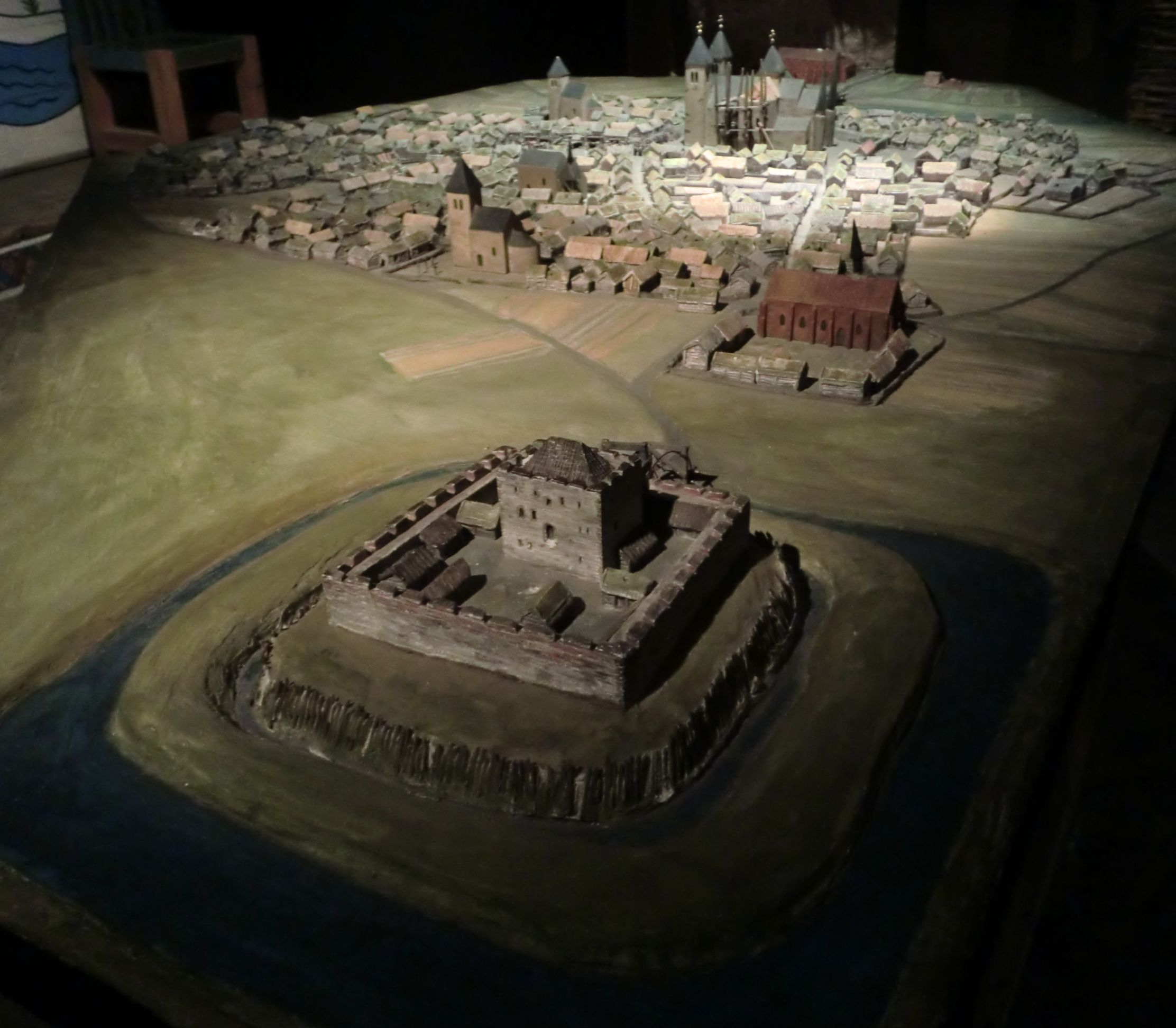 Model in Västergötlands Museum of the swedish town Skara, as it looked in the 13th century. In the foreground is the castle Gälakvist, and in the central town, the Skara Cathedral is being rebuilt in gothic style.